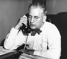 Senator Paul Douglas (D-IL)